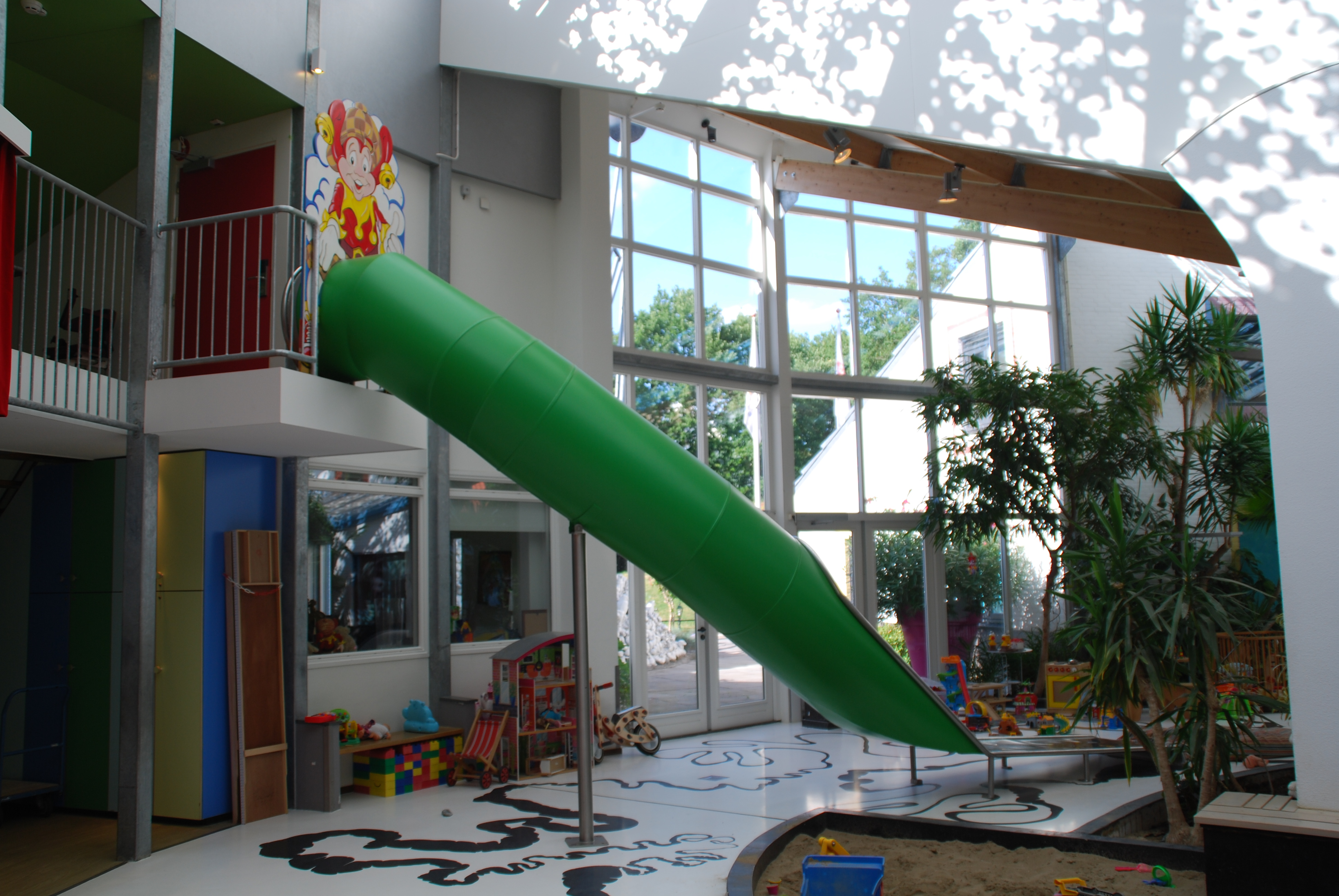 Villa Pardoes - Interieur